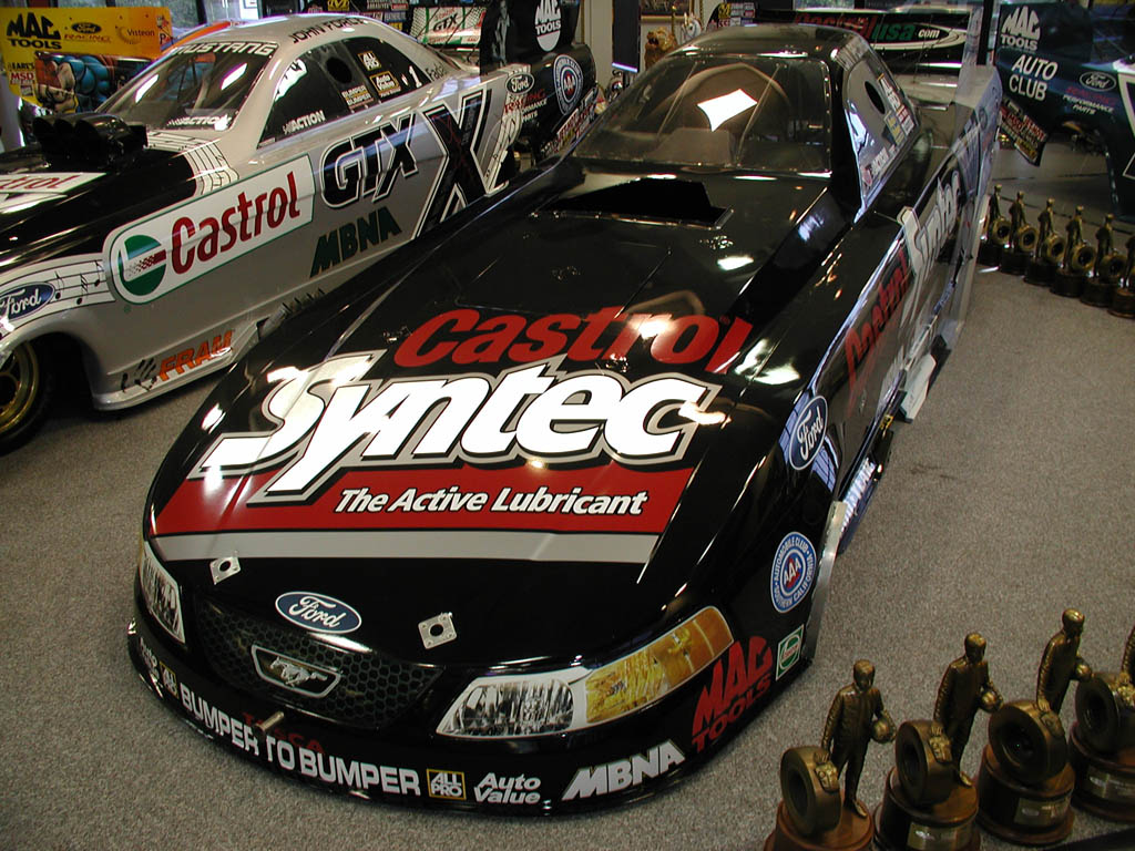 Tony Pedregon's car on display at John Force Racing, Yorba Linda, CA. Taken in 2002 according to the metadata.John Force Racing